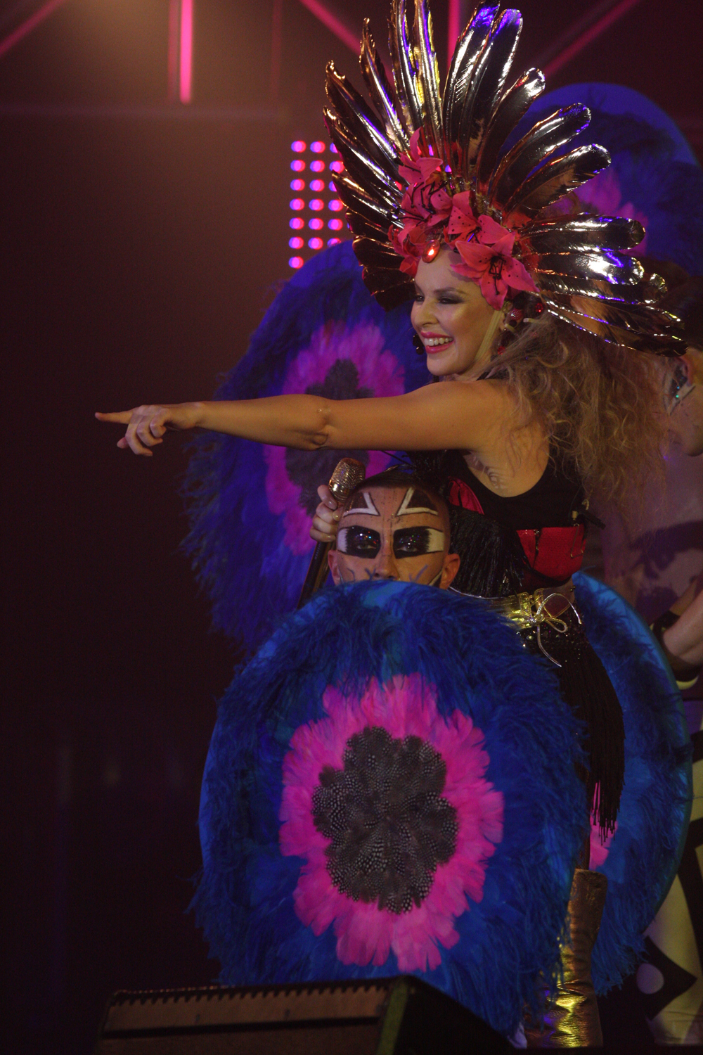 Kylie Minogue appearing and performing at the 2012 Sydney Gay and Lesbian Mardi Gras and After Party.